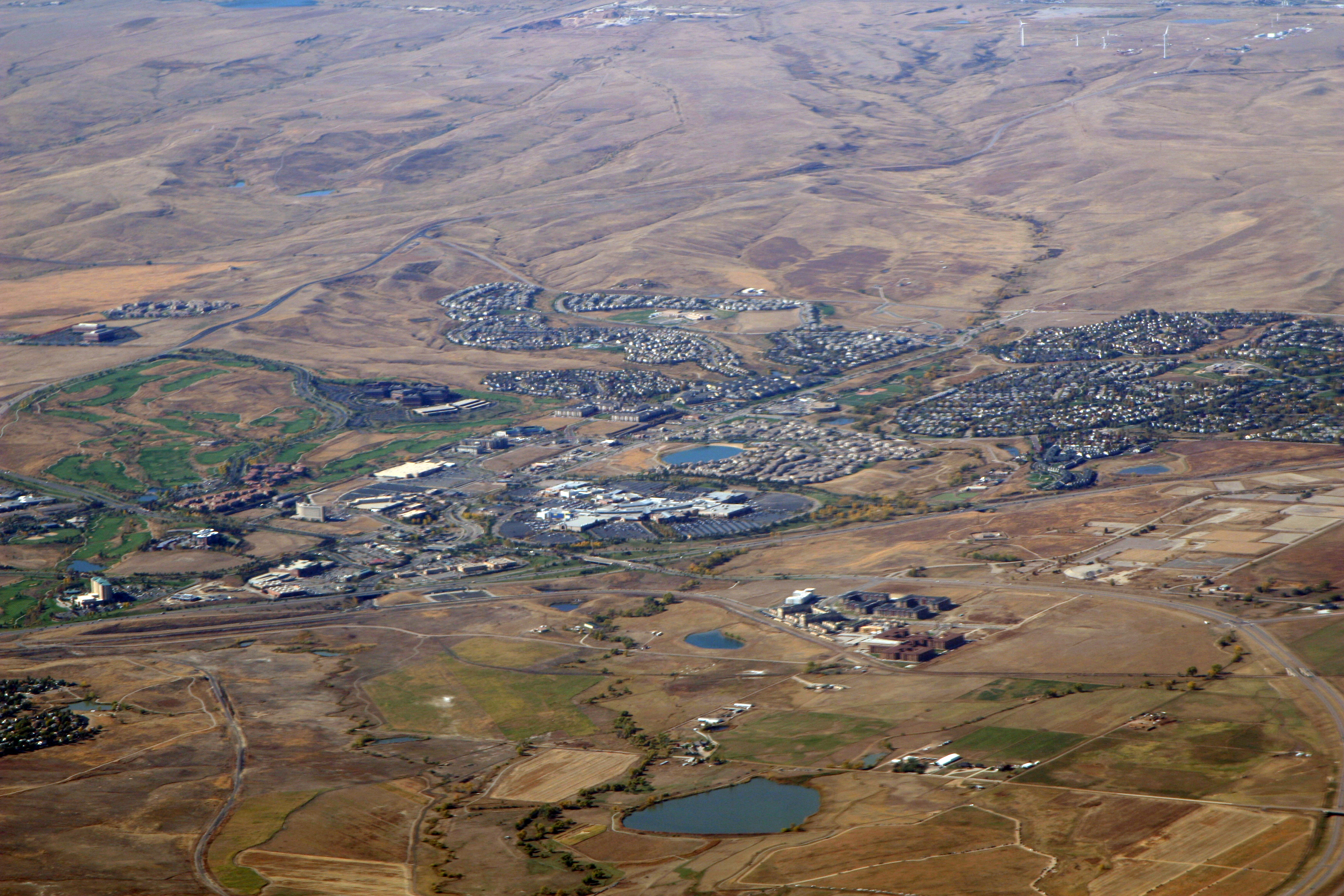 Flatiron Shopping Center, and surrounding: Superior, Colorado.